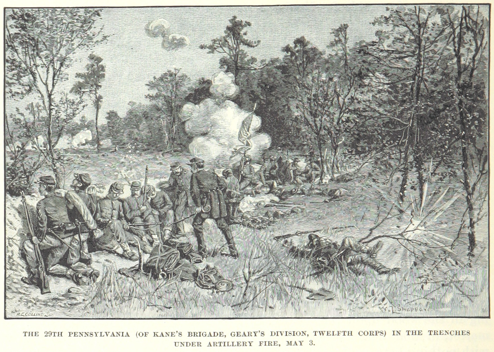 The 29th Pennsylvania Infantry fights in the trenches at the Battle of Chancellorsville.